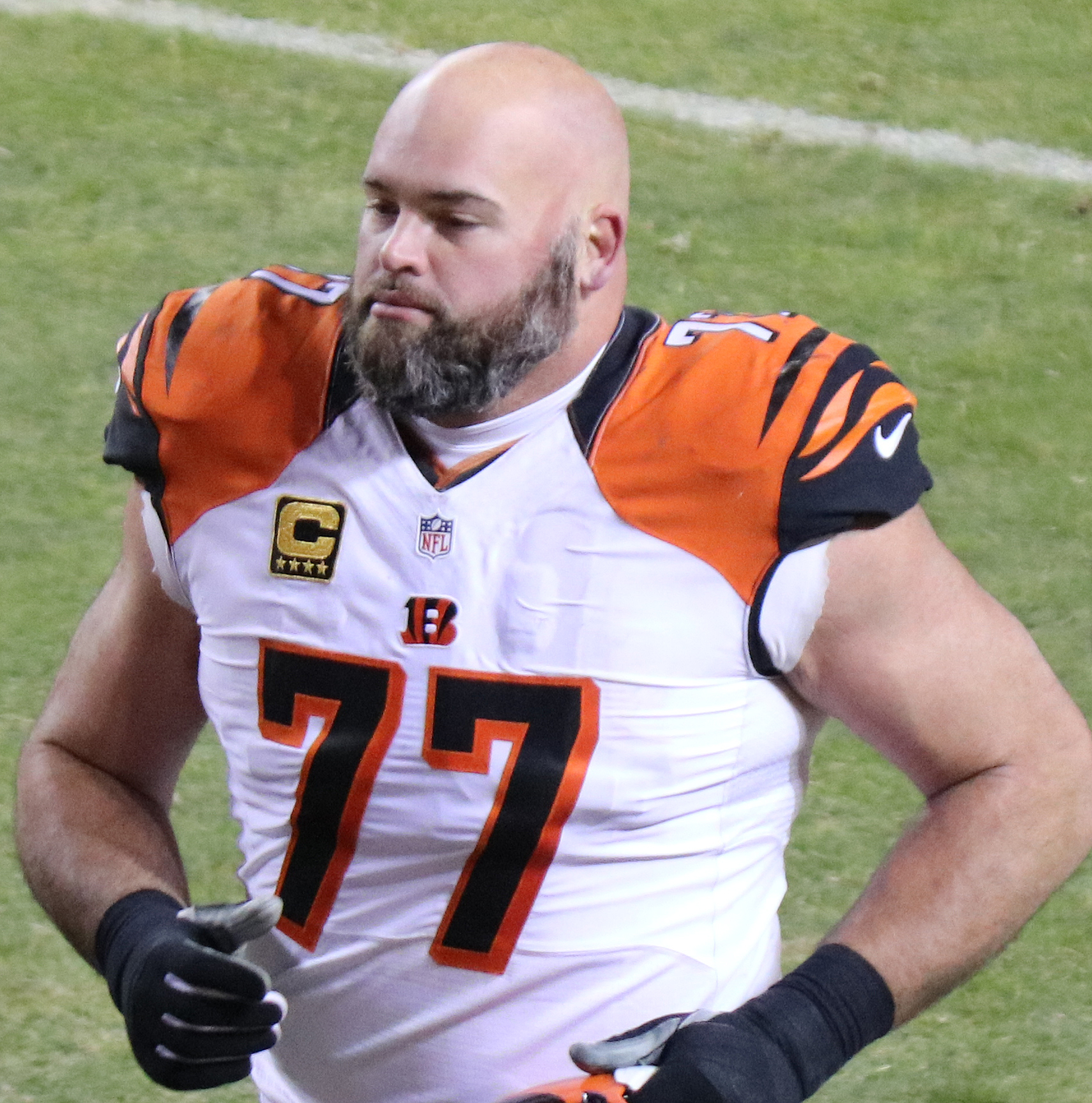 Andrew Whitworth, a player on the National Football League.